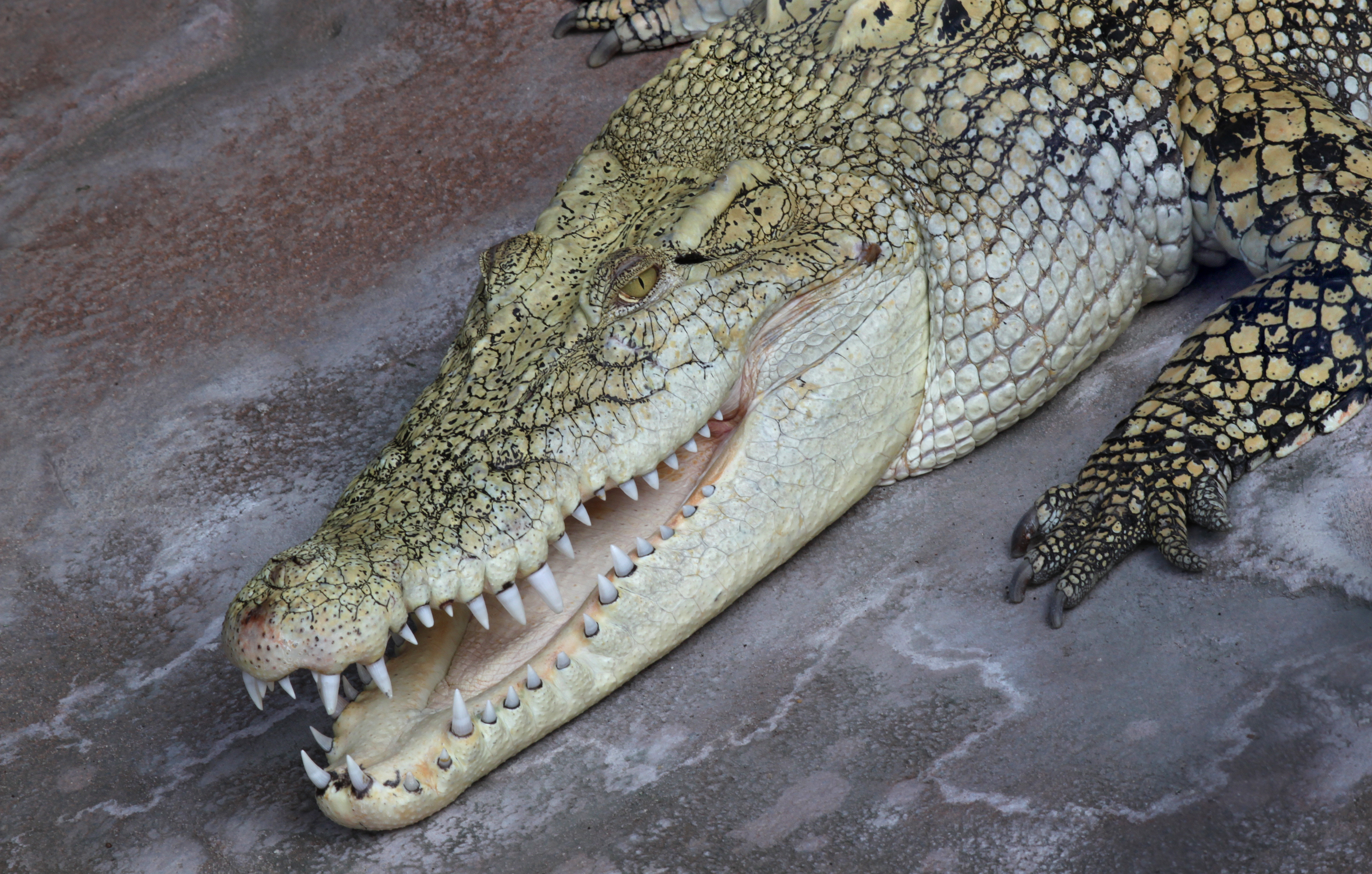 Saltwater Crocodile, Estuarine or Indo-Pacific crocodile Crocodylus porosus, Family: Crocodylidae, Location: Germany, Stuttgart, Zoological Garden